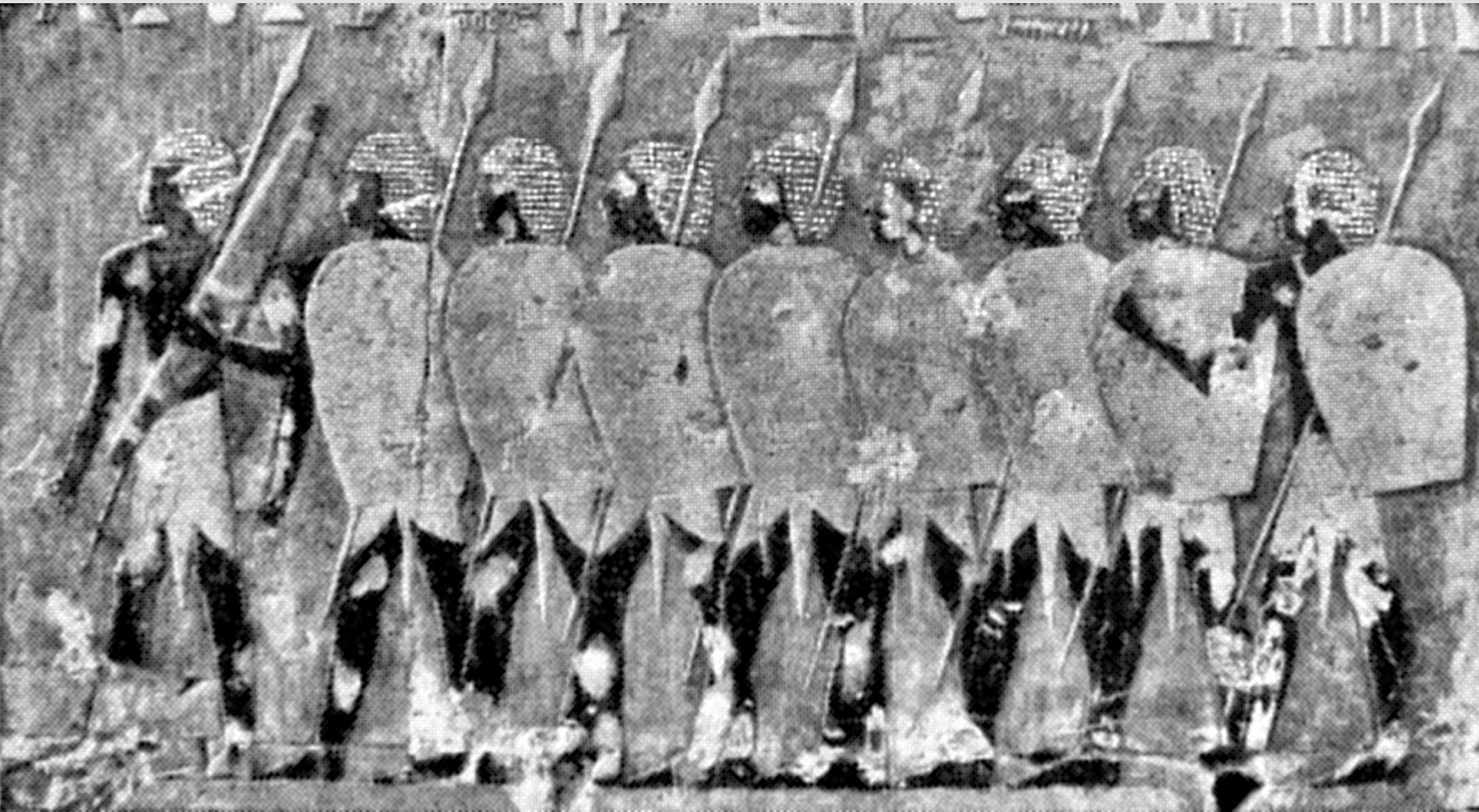 Egyptian hoplites